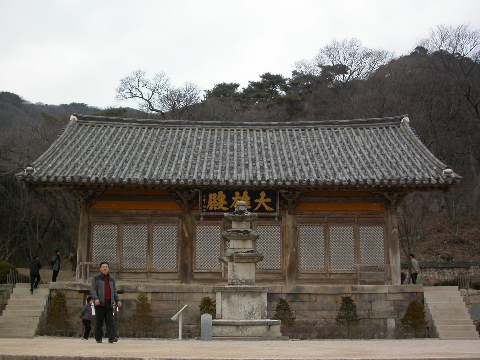 Sudeoksa